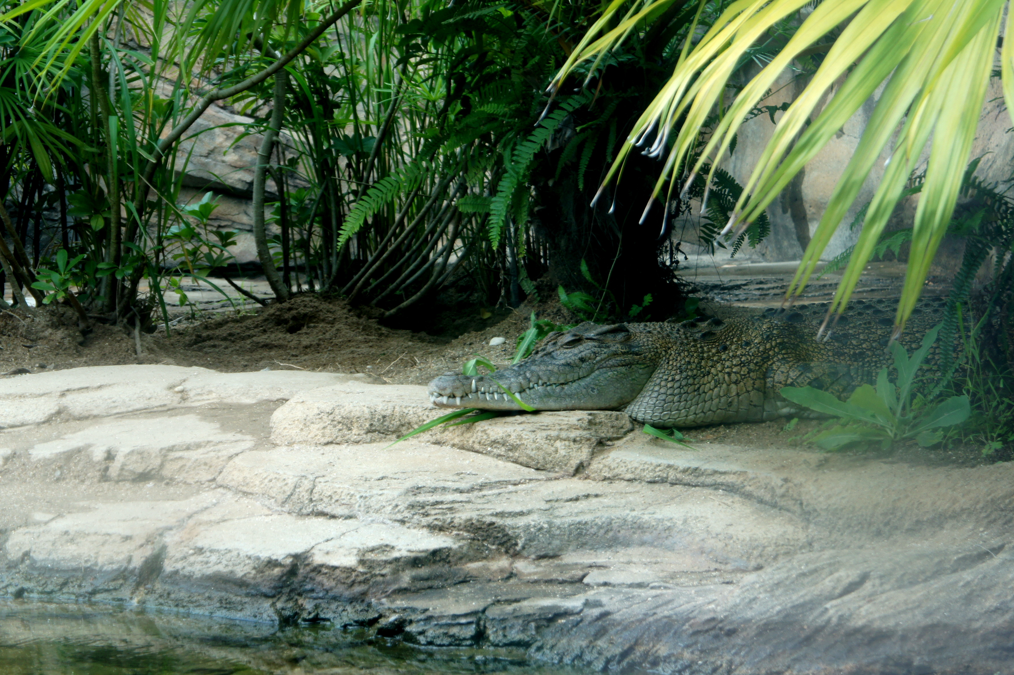 Pui Pui (a Crocodylus porosus) at the Hong Kong Wetland Park.